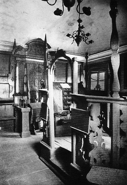 Old prayer house in the "Rabbinathaus" (house of the Rabbi) in Bruchsal (Germany). Destroyed during WWII.